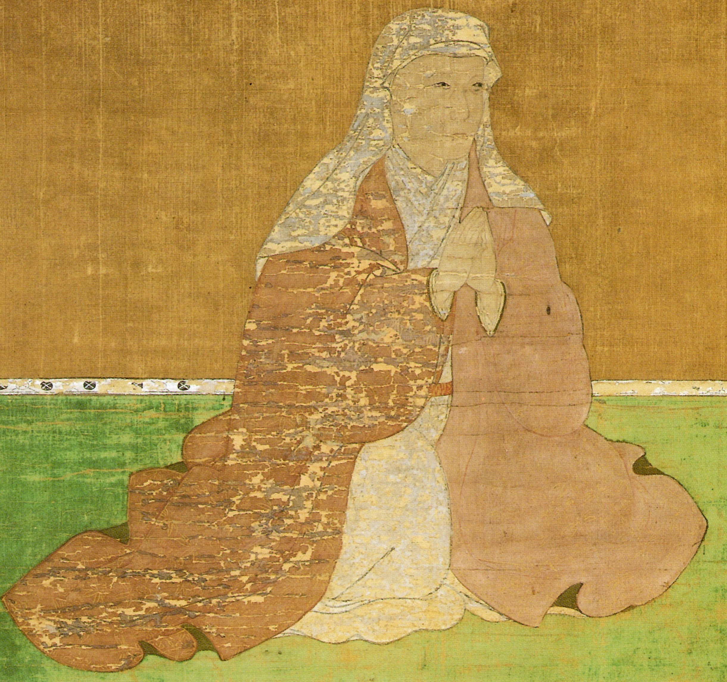 Numata Jakou